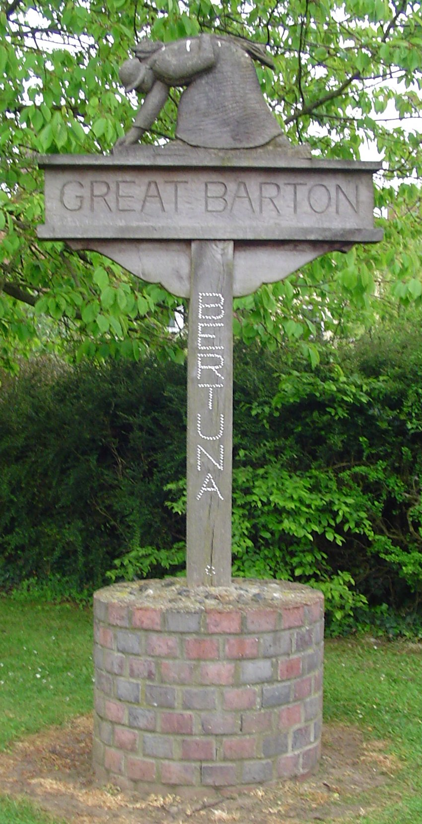 Signpost in Great Barton